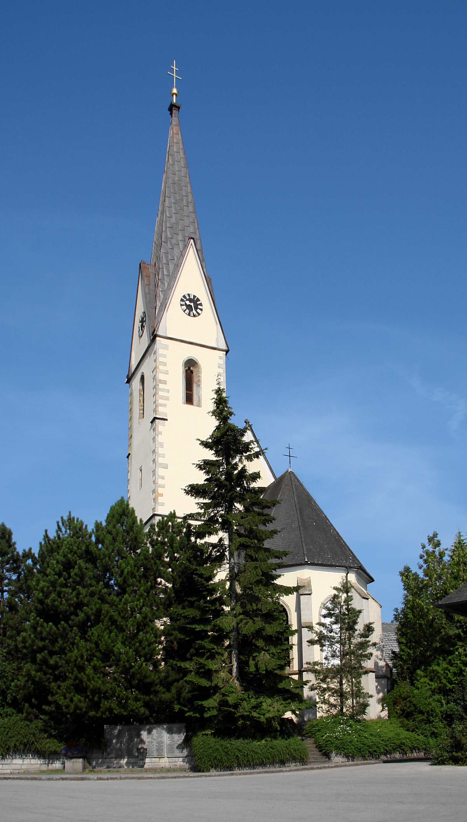 Parish church in Stroheim, Upper Austria